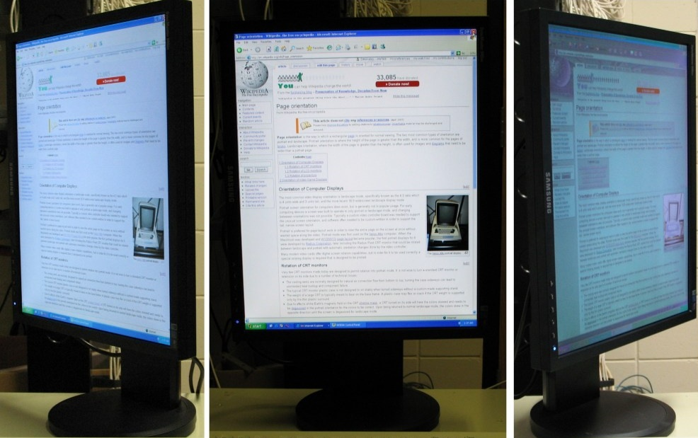 Demonstration of the horizontal axis of polarization on a rotated Samsung SyncMaster 940BX LCD monitor. When viewed at an angle the overall image contrast changes severely, until the colors invert into a negative image.